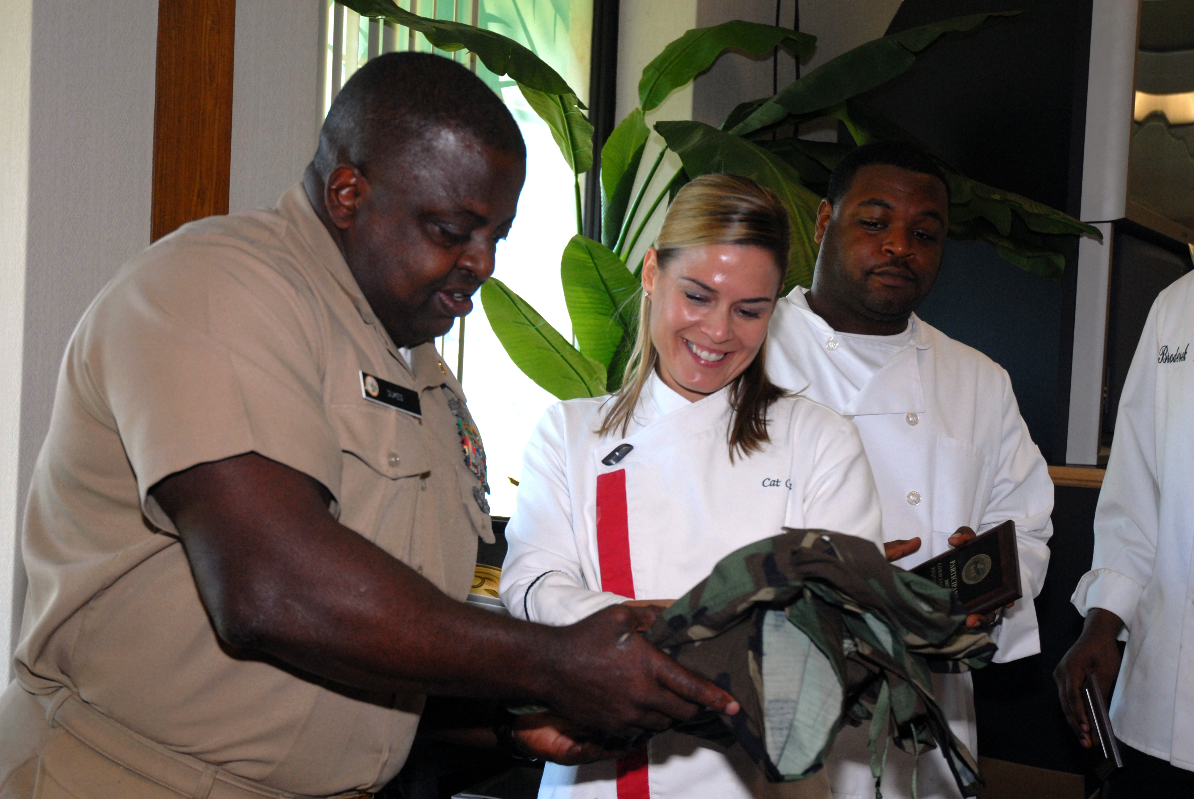 MAYPORT, Fla. (Nov. 13, 2007) Team members assigned to Naval Construction Battalion Center, Gulfport, Miss., give a set of BDUs with her name to Chef Cat Cora, from Food Networks Iron Chef America. Cora was a judge for Commander, Navy Region Southeast's first Navy Iron Chef Competition. U.S. Navy photo by Mass Communication Specialist 1st Class Toiete Jackson (Released)